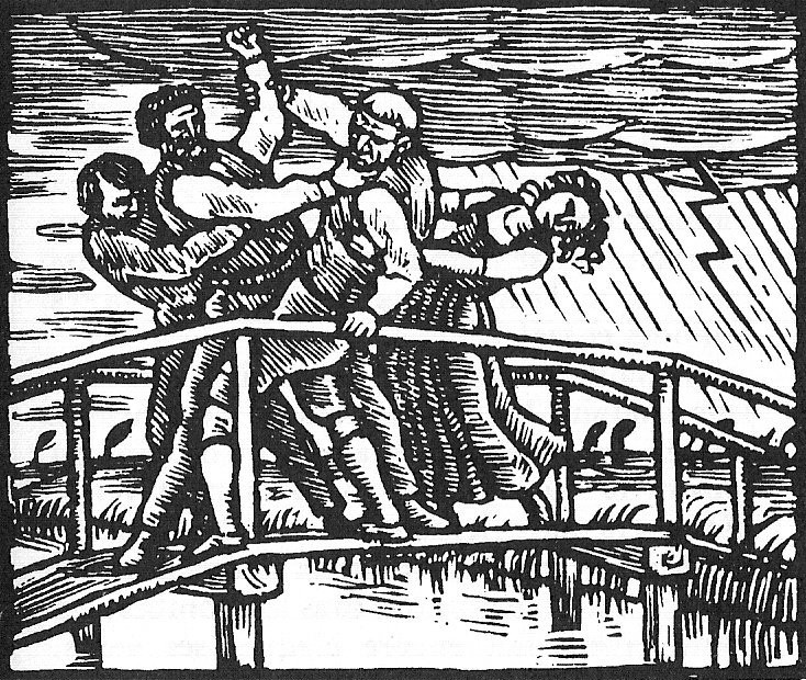 Manz' and Marti's Brawl